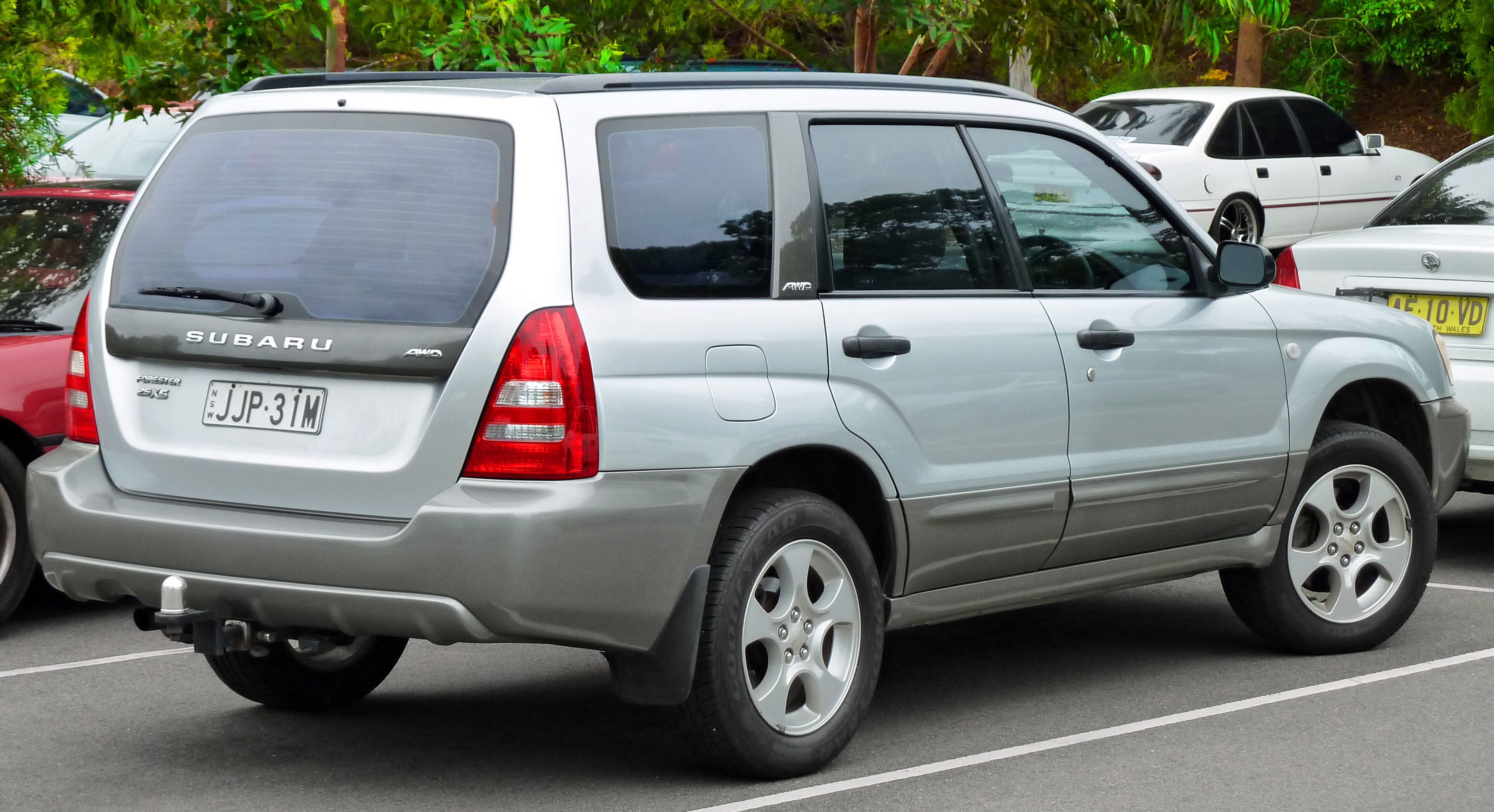 2002 Subaru Forester (MY03) XS wagon. Photographed in Kirrawee, New South Wales, Australia.